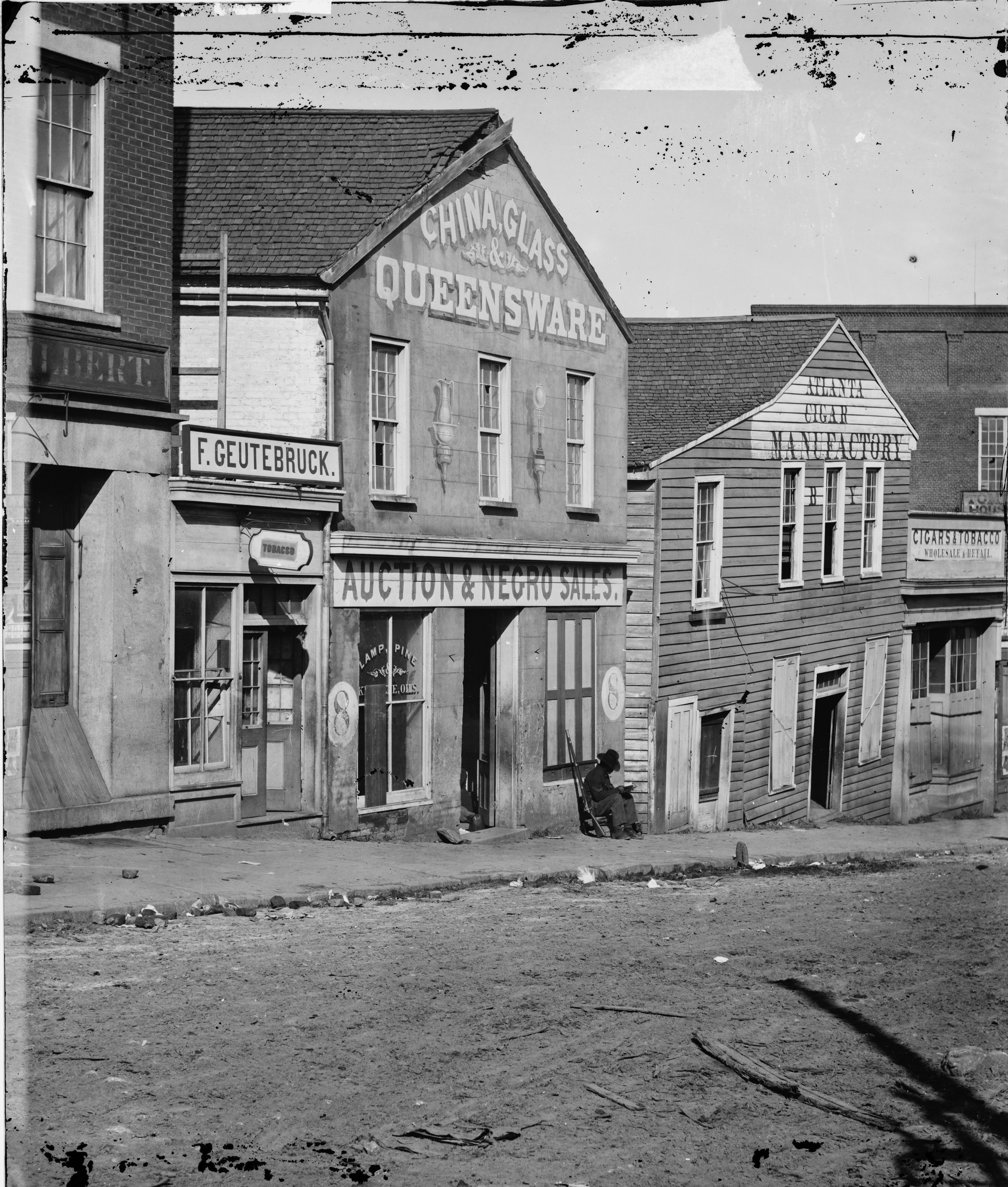 Scene in Whitehall Street, Atlanta, Georgia, 1864. Note building with sign reading "Auction & Negro Sales", a slave trade business. Photograph of the War in the West. These photographs are of Sherman in Atlanta, September-November, 1864. After three and a half months of incessant maneuvering and much hard fighting, Sherman forced Hood to abandon the munitions center of the Confederacy. Sherman remained there, resting his war-worn men and accumulating supplies, for nearly two and a half months. During the occupation, George N. Barnard, official photographer of the Chief Engineer's Office, made the best documentary record of the war in the West; but much of what he photographed was destroyed in the fire that spread from the military facilities blown up at Sherman's departure on November 15.